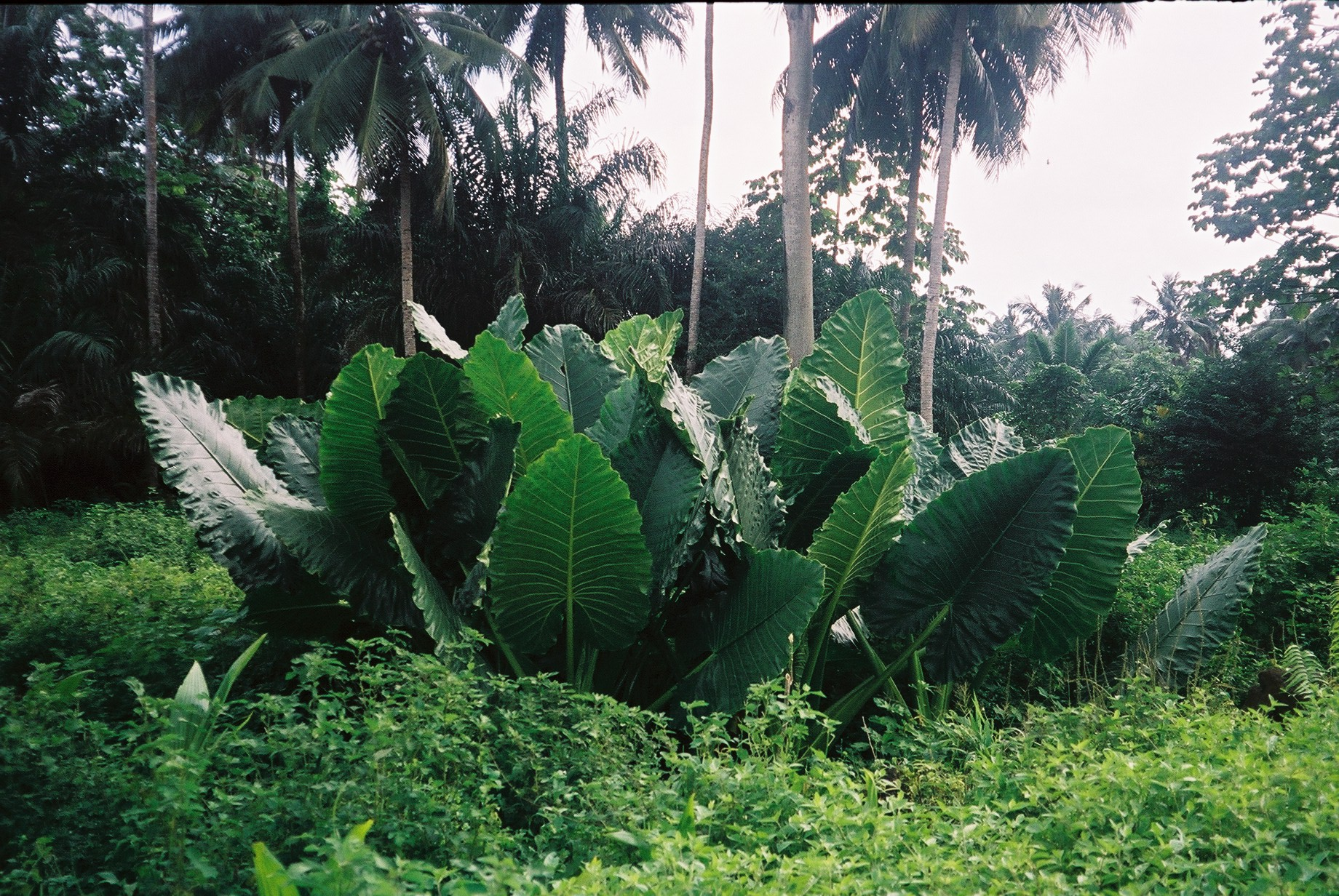 Native tropical habitat and flora of São Tomé and Príncipe islands, off West-Central Africa in the Middle Atlantic Ocean.